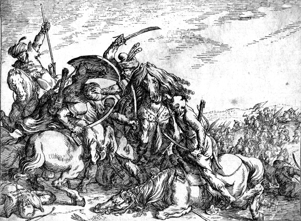 Hungarian and Turkish cavalry fighting, c. 1680 Unsigned etching; combat in foreground between 4 or 5 mounted Turks and Hungarians, battle in right foreground.